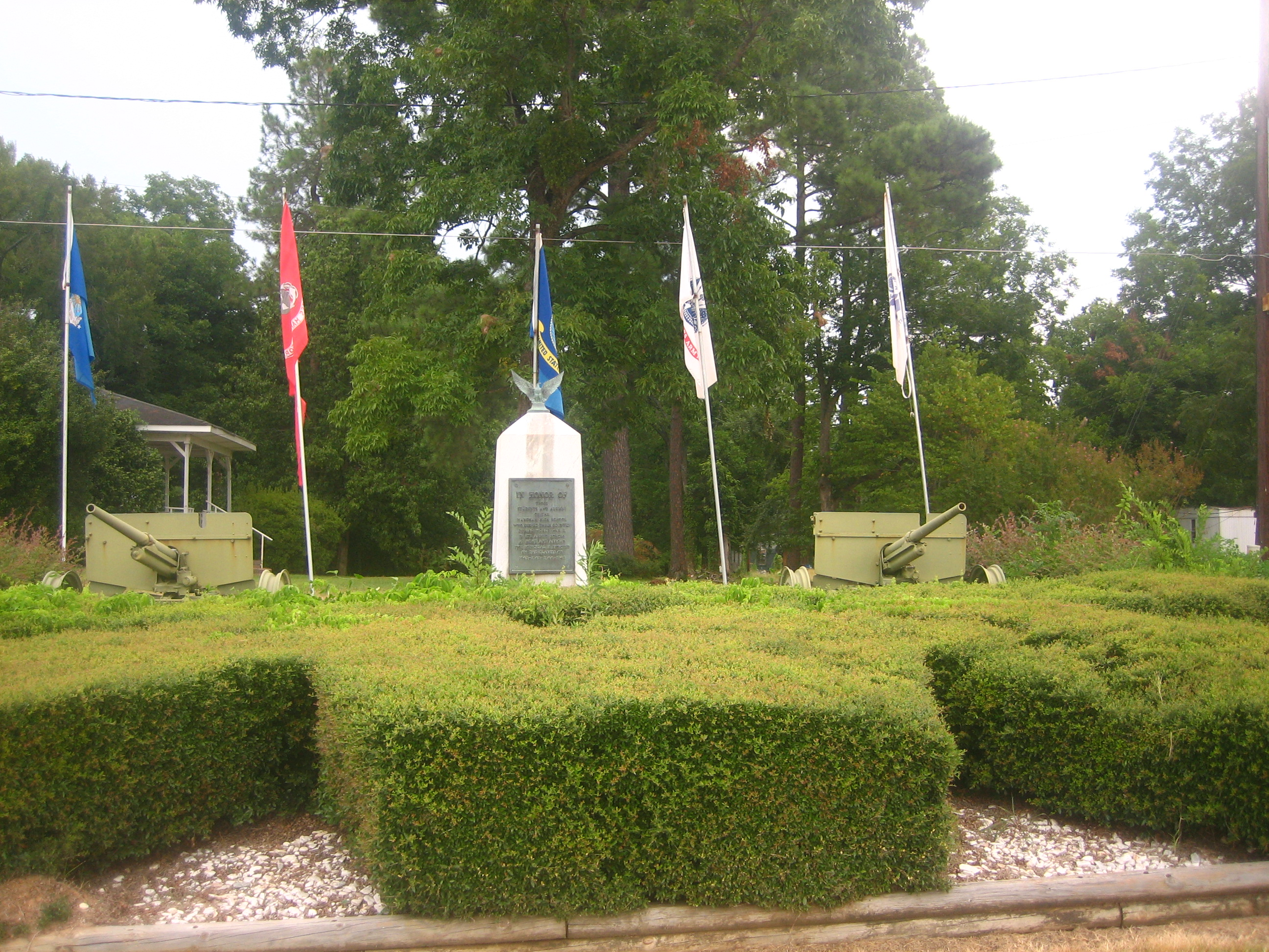 I took photo on Aug. 2, 2008.Billy Hathorn (talk) 04:00, 17 August 2008 (UTC)